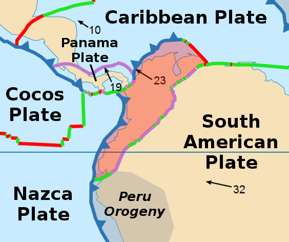 Map of the North Andes Plate